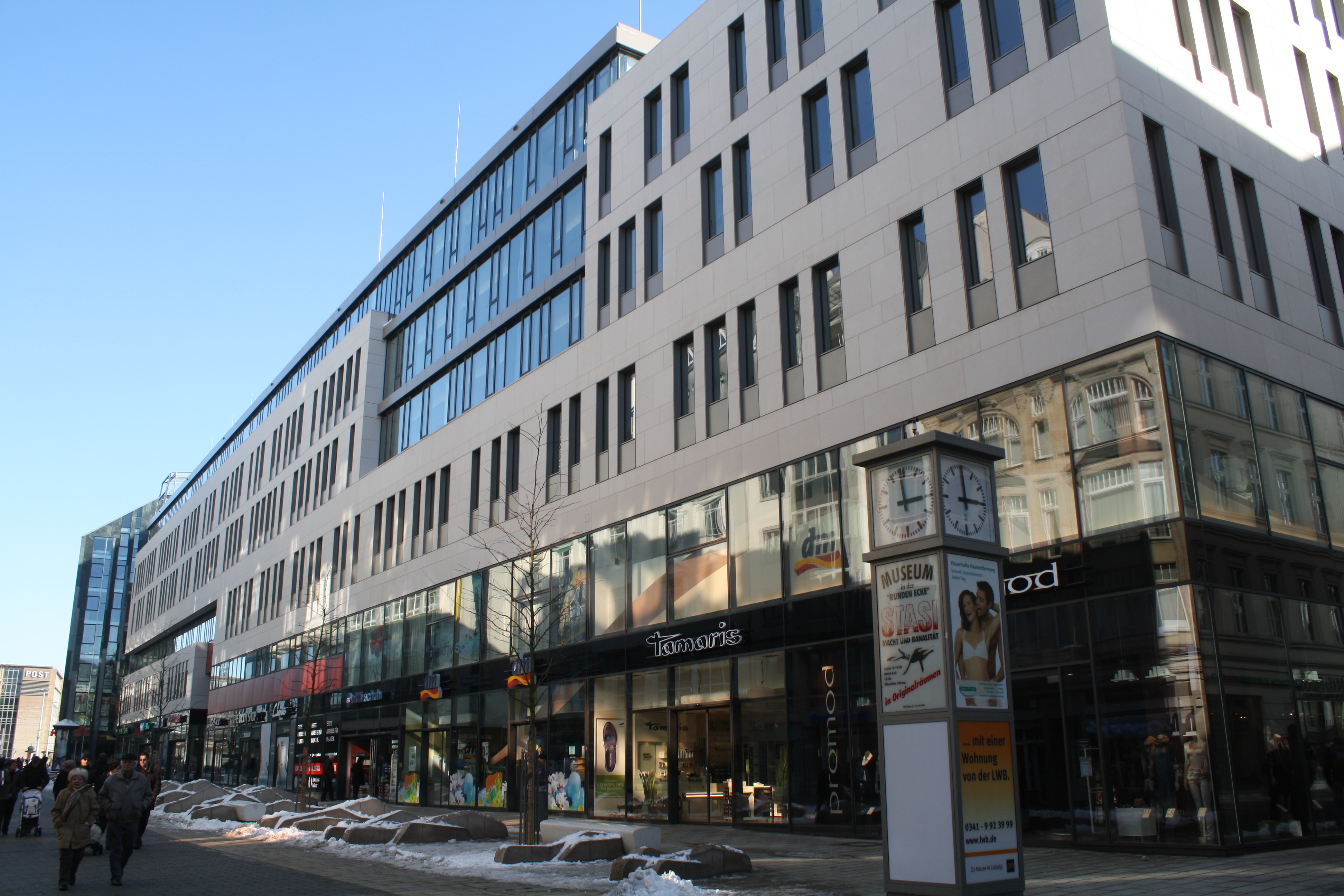 The northface of the new campus from university of leipzig